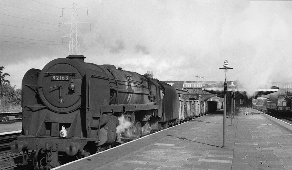 Hooton Station, with Up empties train. View northward, towards Birkenhead; ex-Birkenhead Joint (GW&LMS) Chester - Birkenhead line. The scene is in the latter days of Steam and the train is headed by a dirty BR Standard 9F 2-10-0 No. 92163, while on the Up Fast line is a Diesel railcar set on a local service.